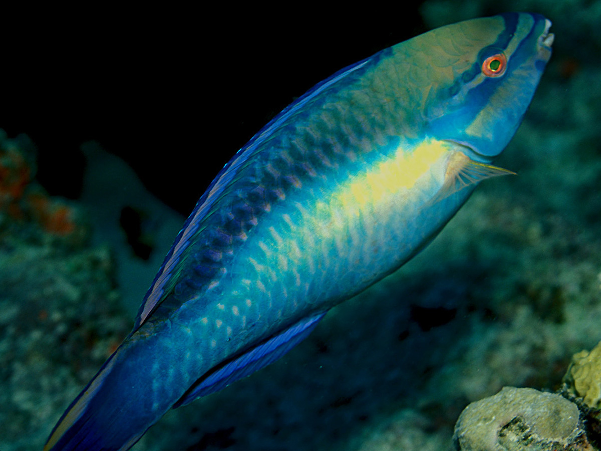 A princess parrotfish (Scarus taeniopterus) hovers over a Caribbean reef. Well... this one is actually a prince... technically speaking.